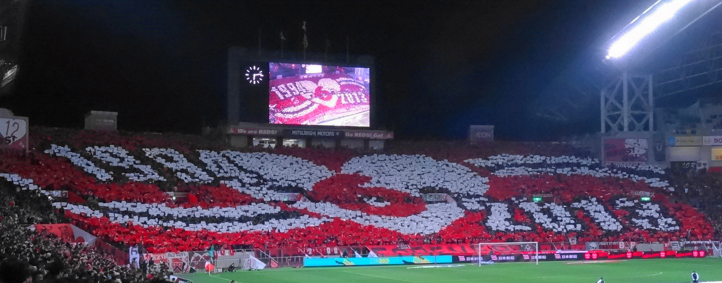 Urawa Red Diamonds fan's message to Nobuhisa Yamada.